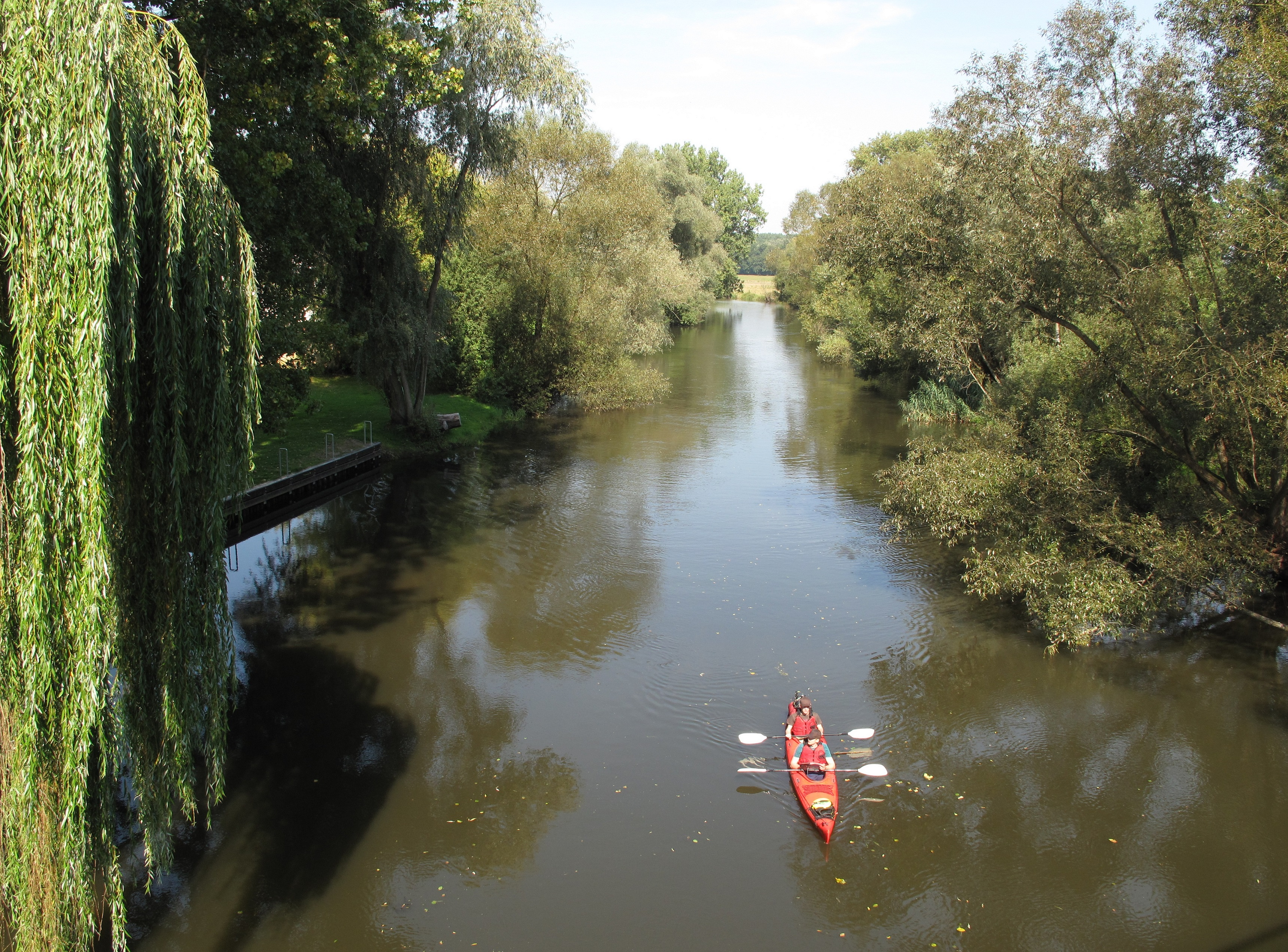 River Spree in Kossenblatt, a part of the municipality Tauche in the District Oder-Spree, Brandenburg, Germany. View from the Zollbrücke (german for: duty bridge) to the north.